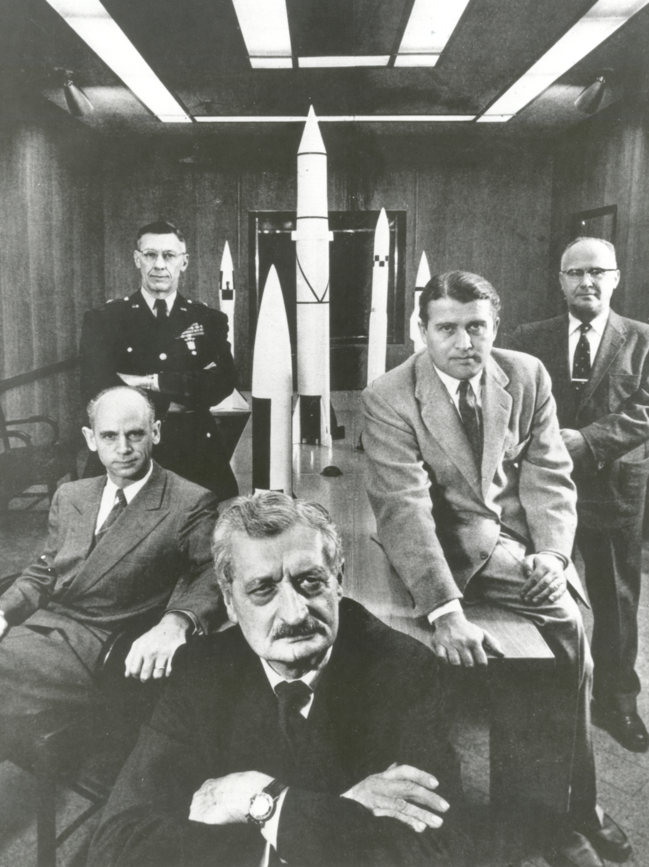 Hermann Oberth (forefront) with officials of the Army Ballistic Missile Agency at Huntsville, Alabama in 1956. Left to right around Oberth: 1) Dr. Ernst Stuhlinger (seated). 2) Major General H.N. Toftoy, Commanding Officer and person responsible for "Project Paperclip," which took scientists and engineers out of Germany after World War II to design rockets for American military use. Many of the scientists later helped to design the Saturn V rocket that took the Apollo 11 astronauts to the Moon. 3) Dr. Wernher von Braun, Director, Development Operations Division. 4) Dr. Robert Lusser, a Project Paperclip engineer who returned to Germany in 1959. (Note: Lusser is incorrectly identified as Eberhard Rees in the standard NASA caption for this photo).